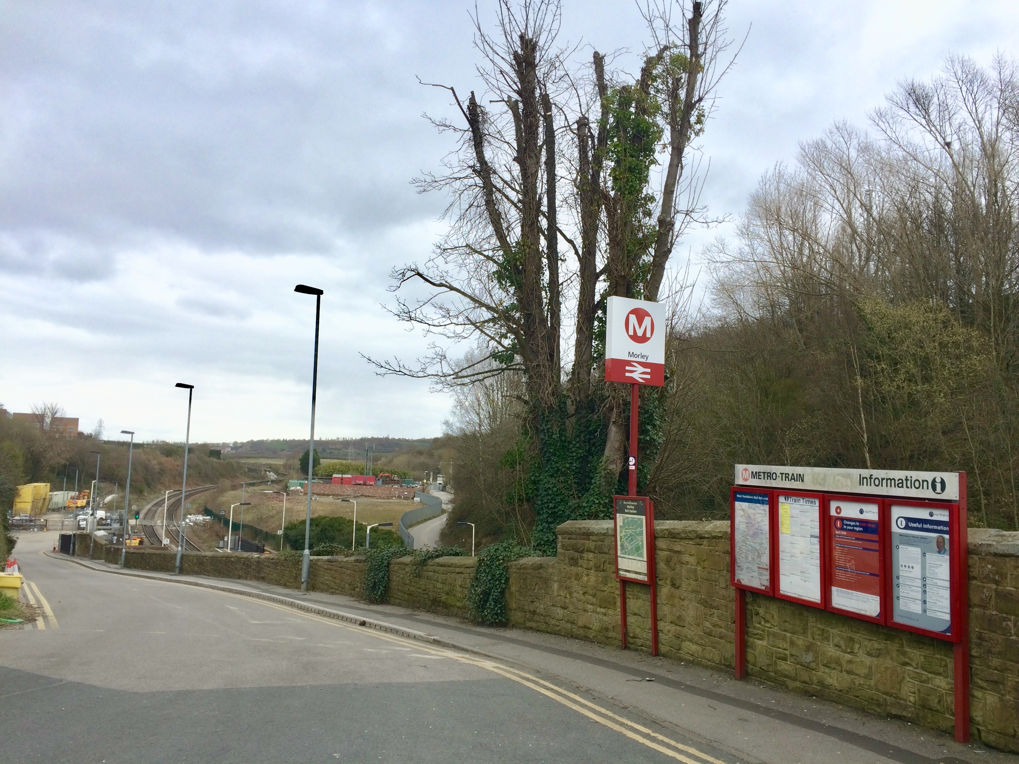 Morley railway station